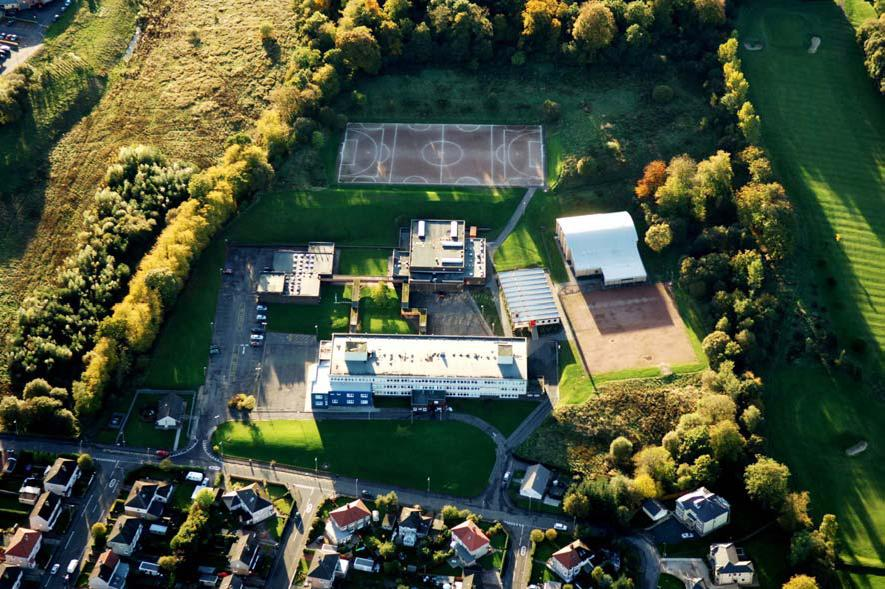 Aerial View of Turnbull High